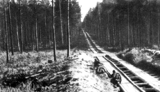 Volkhov Front Road across the heavily forested and Marshy areas near Ladoga Lake